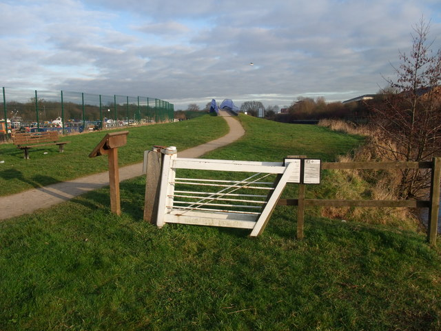 Clapper Gate Restored by British Waterways, whose notice board to the left gives information about these double gates unique to the Trent.